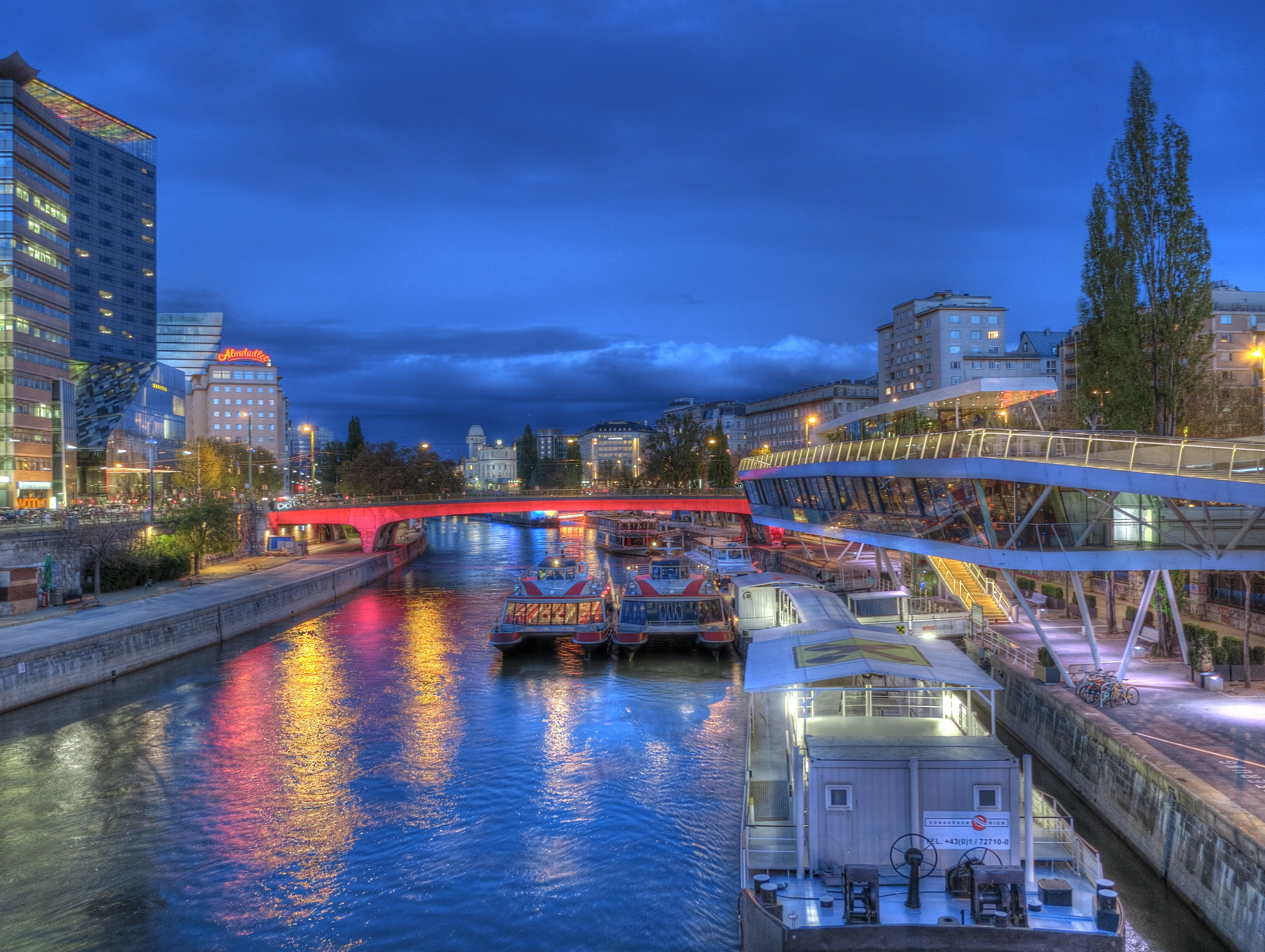 The evening red-lit Schweden-Bridge in Vienna / Austria / EU, as seen from the upstream Marien-Bridge seen. On the left bank of the beginning of the Tabor Road in the 2nd District with the Sofitel Vienna. A little later a house with a red "Almdudler" neon sign. Right to scuttle the Twin City Liner (speedboat between Vienna and Bratislava) with the local "Motto on the river." Back in the middle of the National Education Institute Urania. In the night Danube canal reflects the red light and blue, cloudy sky.